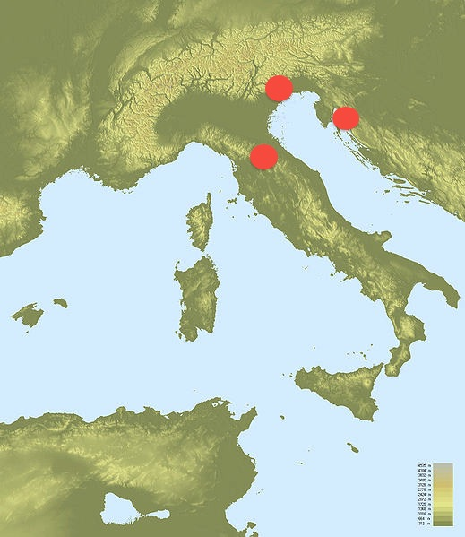 I modified this public domain map with dots of the Polistes sulcifer distribution based on the source